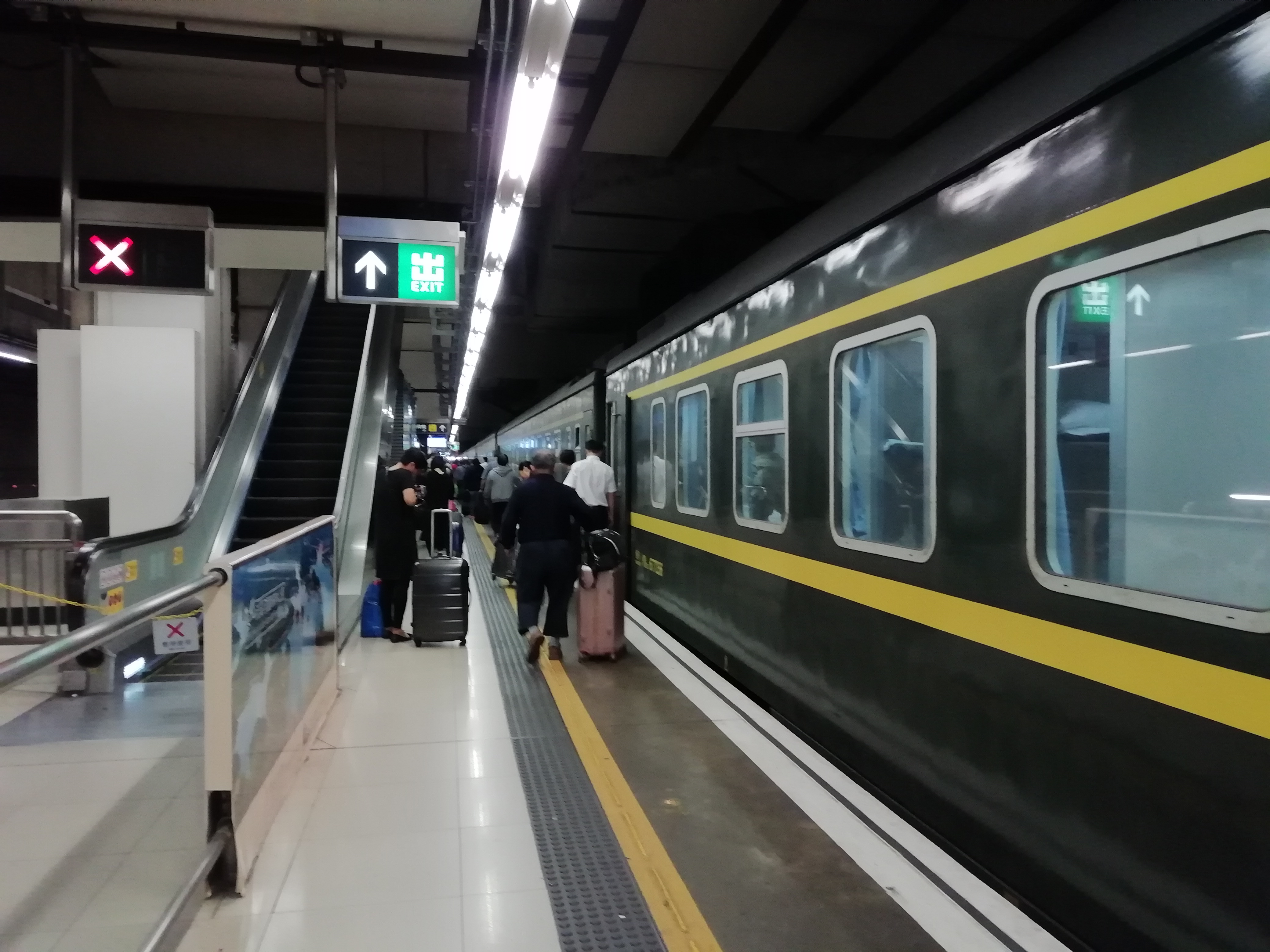 Z99 train, which departed from Shanghai is arrived at Hung Hom (Kowloon) Station.